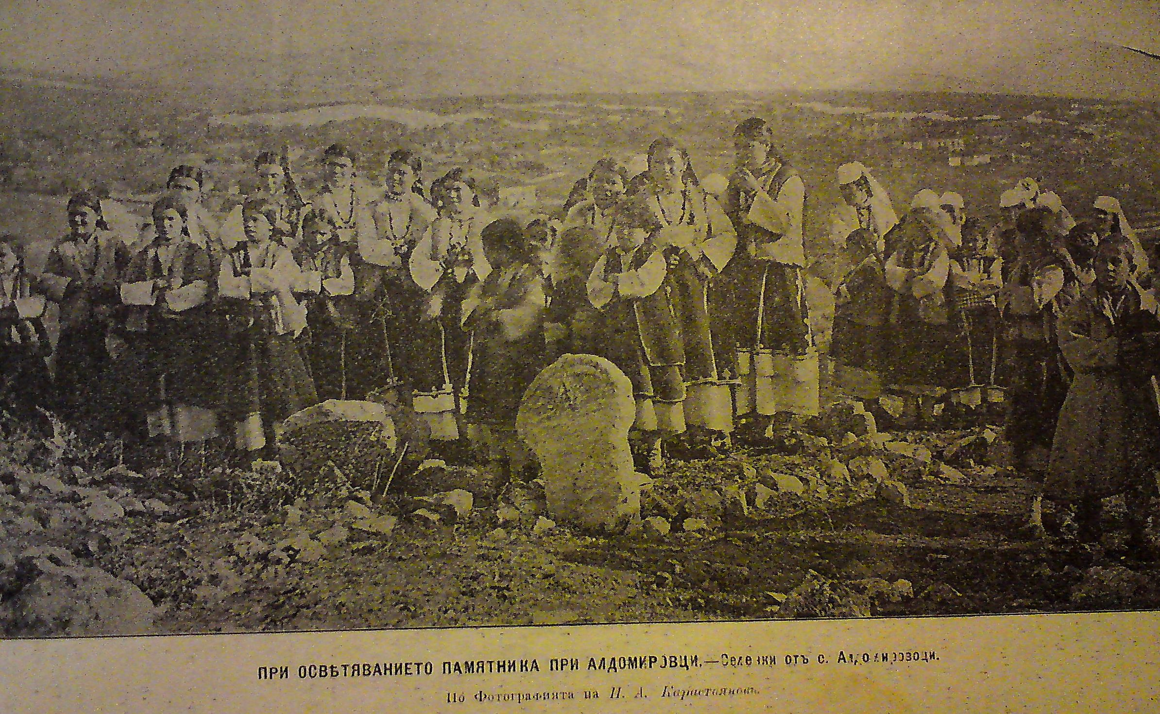 'Peasant' - picture of the Bulgarian magazine "Iskra", 1891, Author: John A. Karastoyanov (1853-1922), the court photographer Sofia. Picture taken at the opening of the first military monument in Bulgaria - in this village Aldomirovtsi, Slivnitsa Municipality, in memory of the fallen in the Serbo-Bulgarian war 1885.